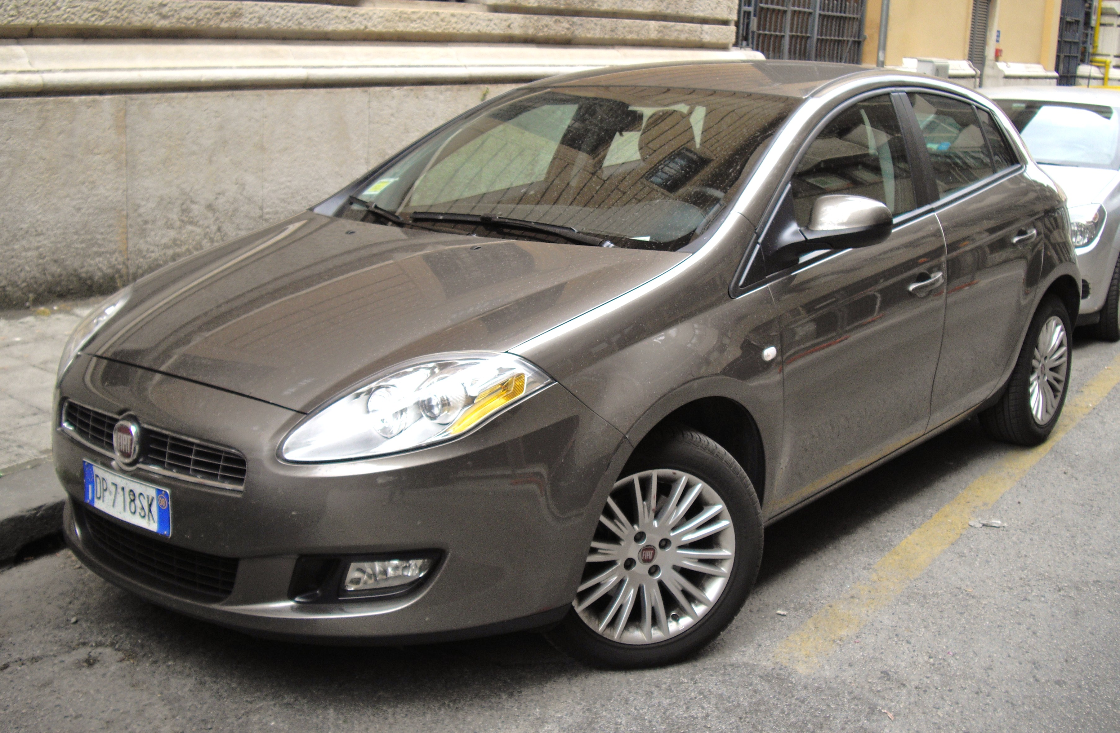 Fiat Bravo 2009